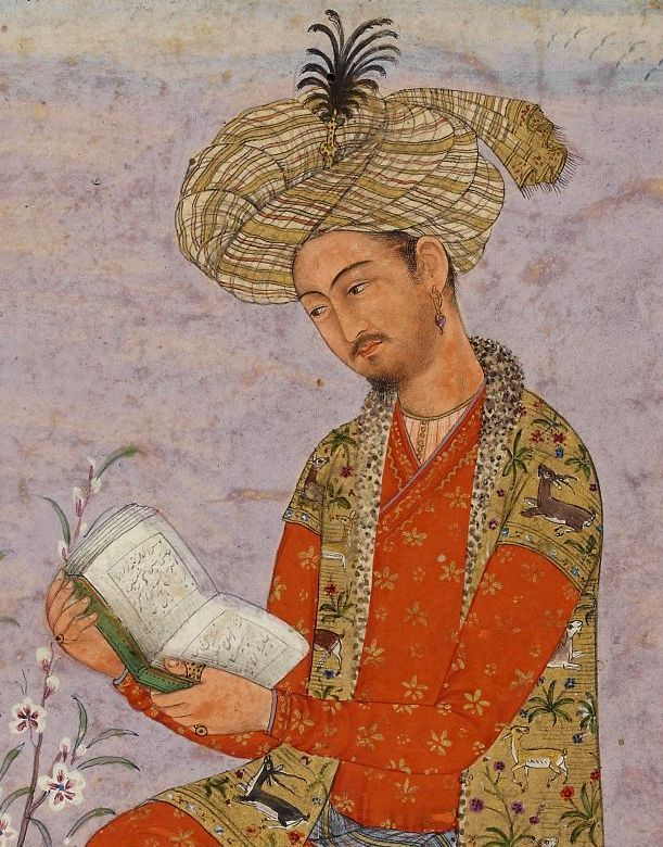 portrait of Babur (1483-1530)